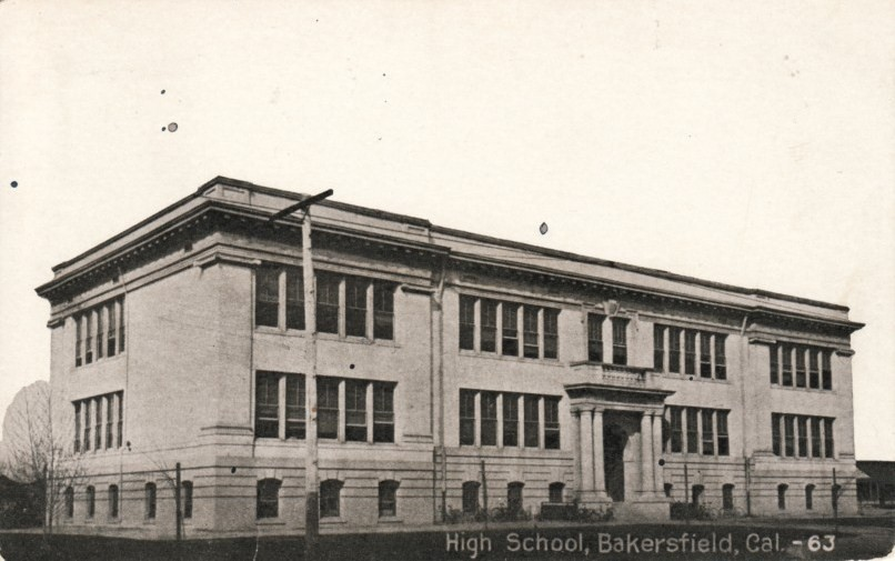 Postcard picture of Bakersfield High School in Bakersfield, California, 1917.